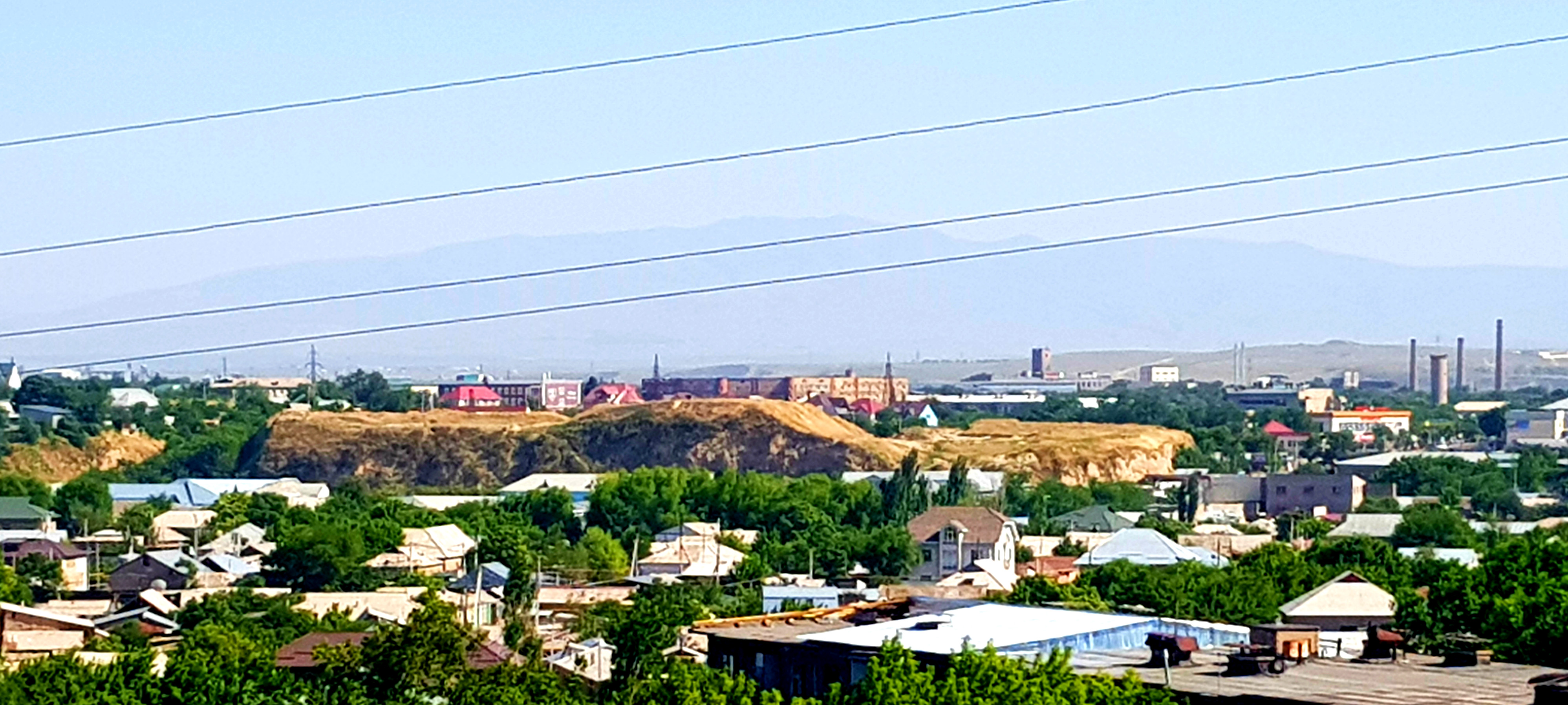 Citadel of ancient town of Shymkent